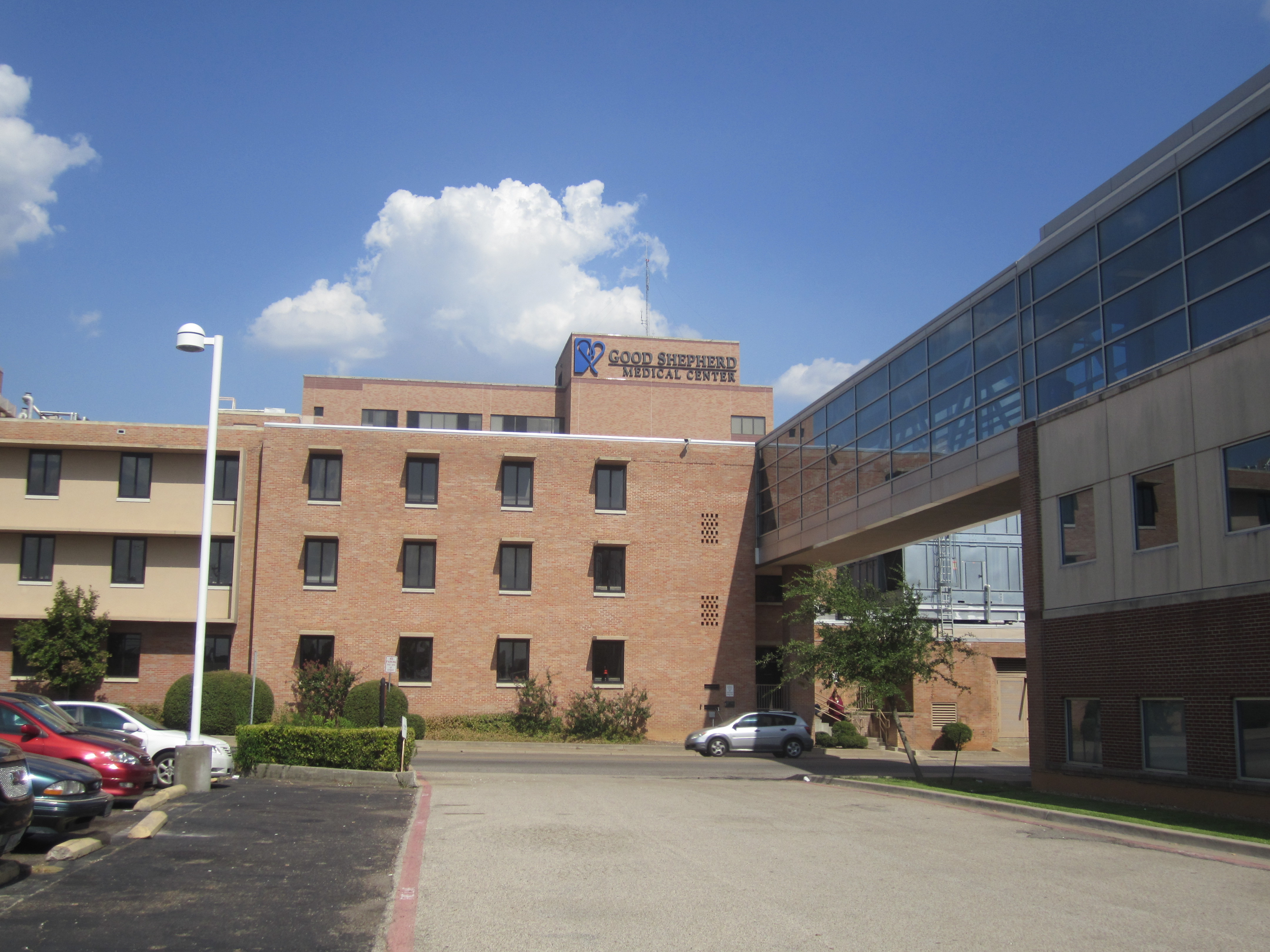 I took photo of Good Shepherd Medical Center in Longview, TX, with Canon camera.